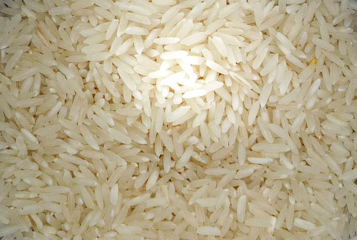 Rice grains (Long).